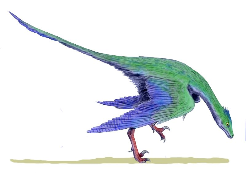 Rahonavis ostromi, a dromaeosaur from the Late Cretaceous of Madagascar, pencil drawing